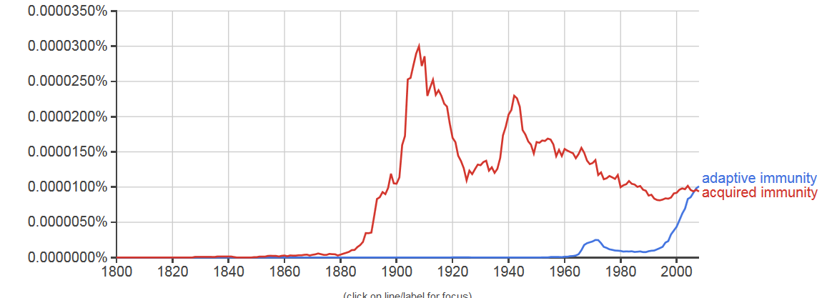 using Google Ngram tool . The peak of use of "adaptive immunity" in the 1960's represents the work of Robert Good and colleagues; the exponential growth in the 1990's is tightly correlated with the use of phrase "innate immunity".